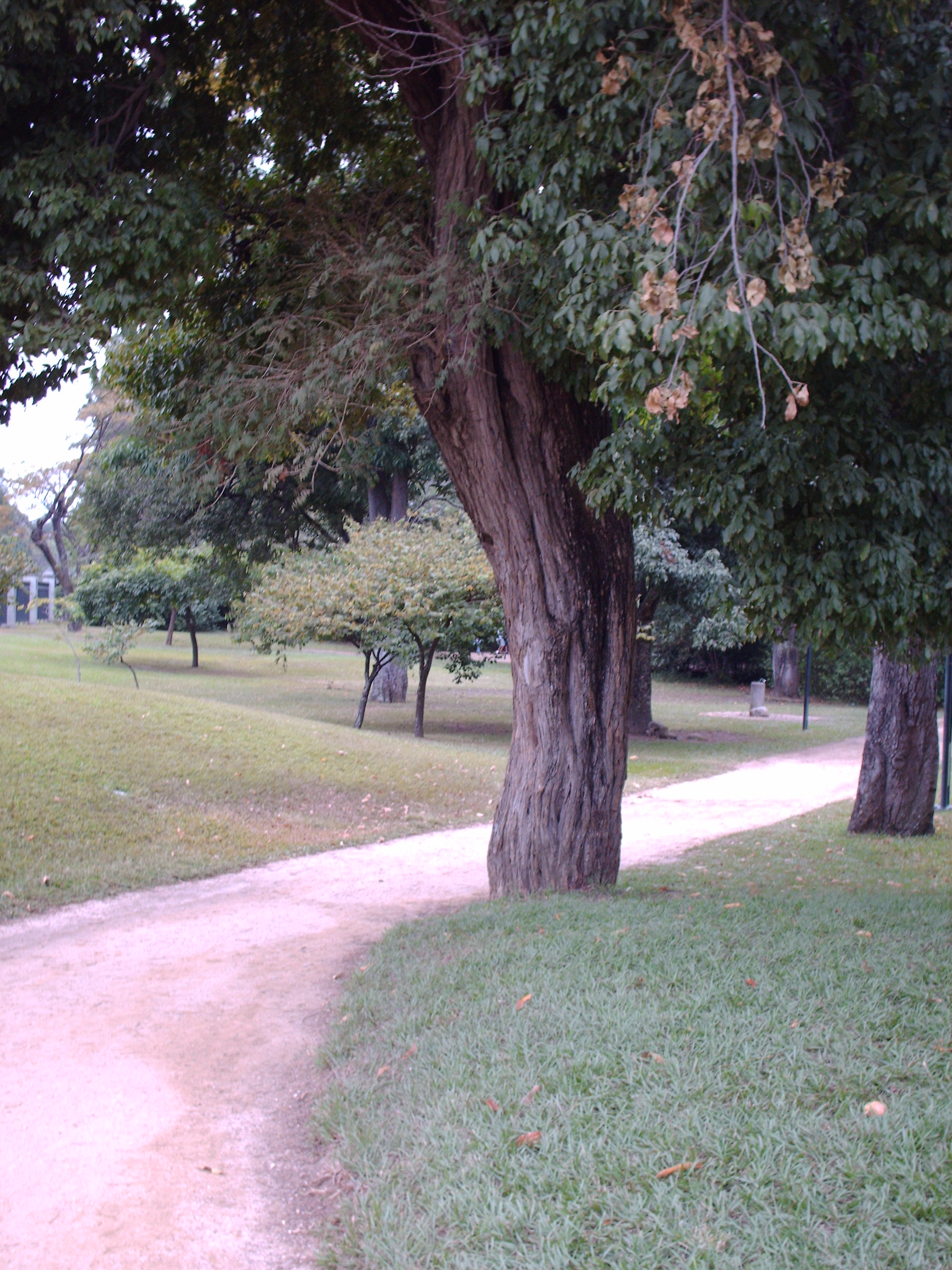 A tree and path in the Negra Hipolita Park, Valencia - Venezuela